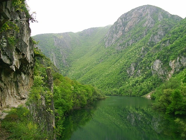 Treska River Dam in the Republic of Macedonia